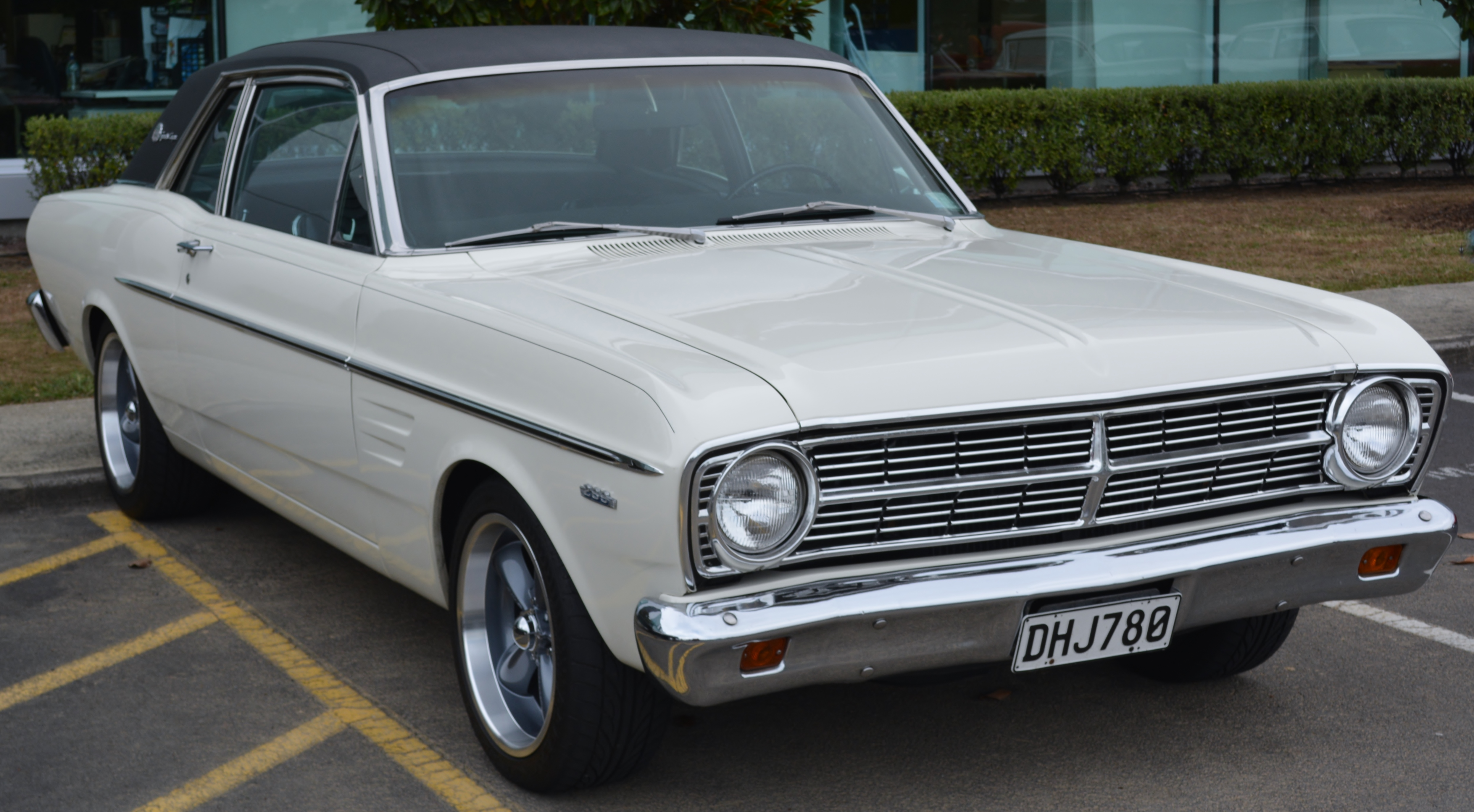 South Auckland,New Zealand